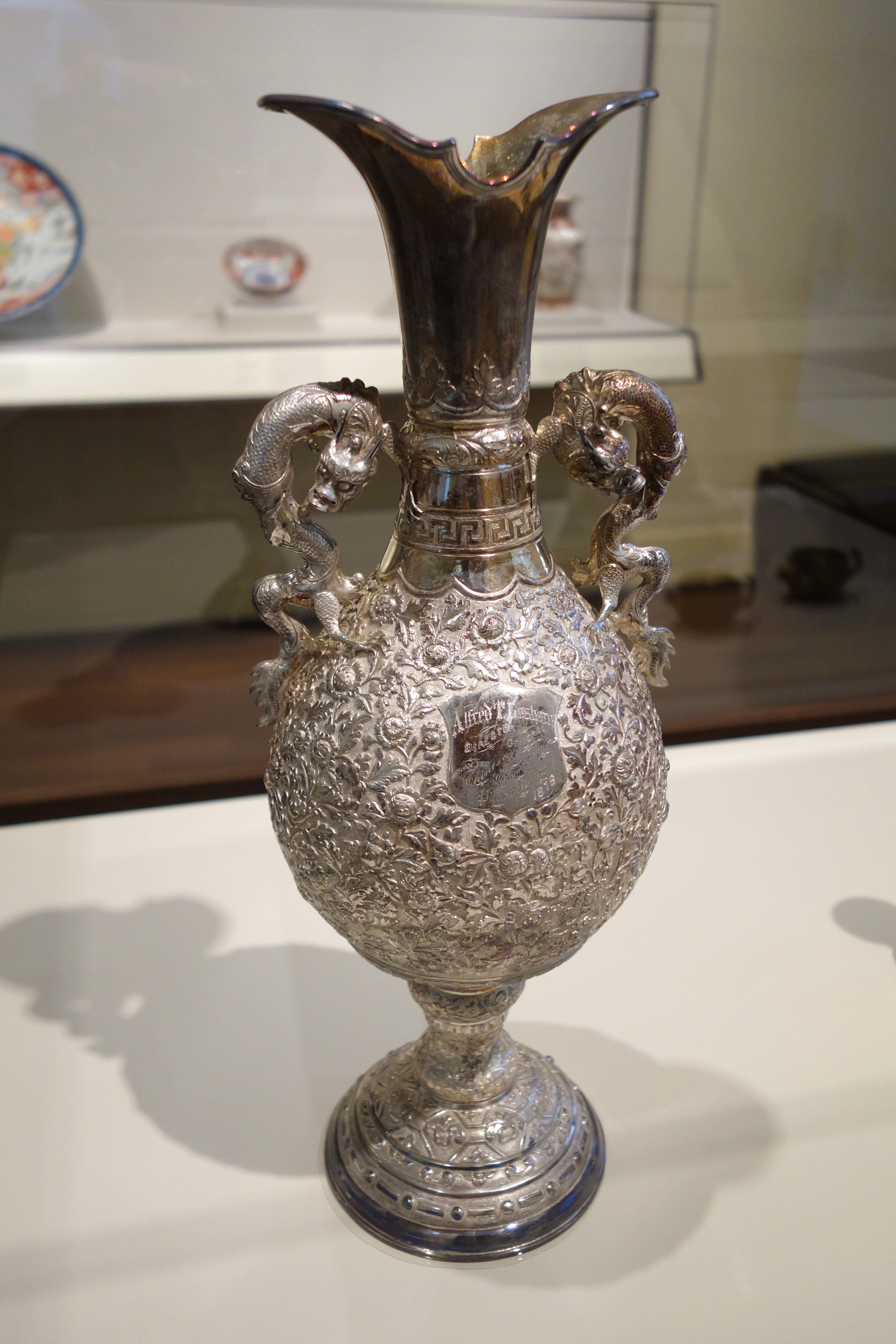 Exhibit in the Cincinnati Art Museum, Cincinnati, Ohio, USA. This artwork is in the public domain because the artist died more than 70 years ago.